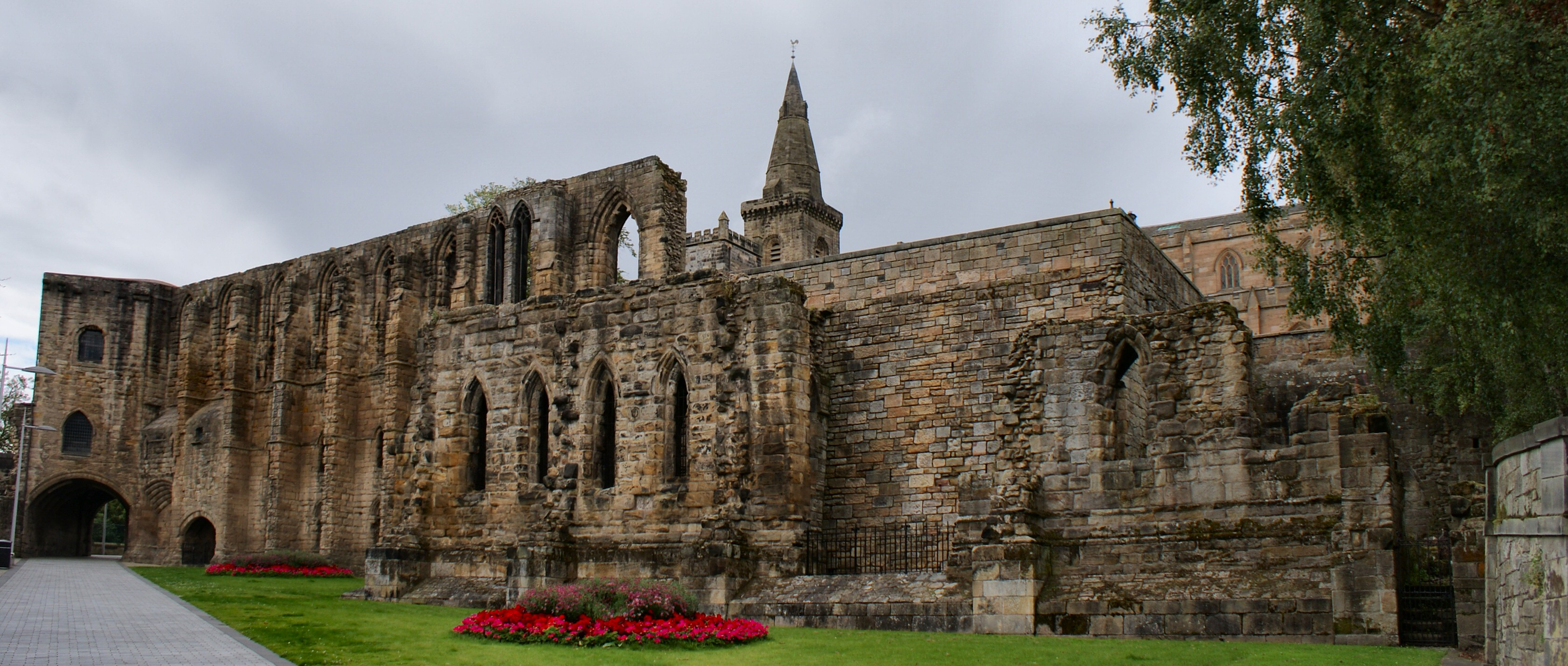 The imposing south wall and gatehouse of Dunfermline Palace. The Abbey can be seen in the background.